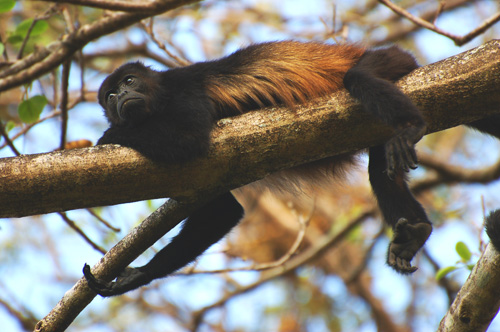 © Leonardo C. Fleck